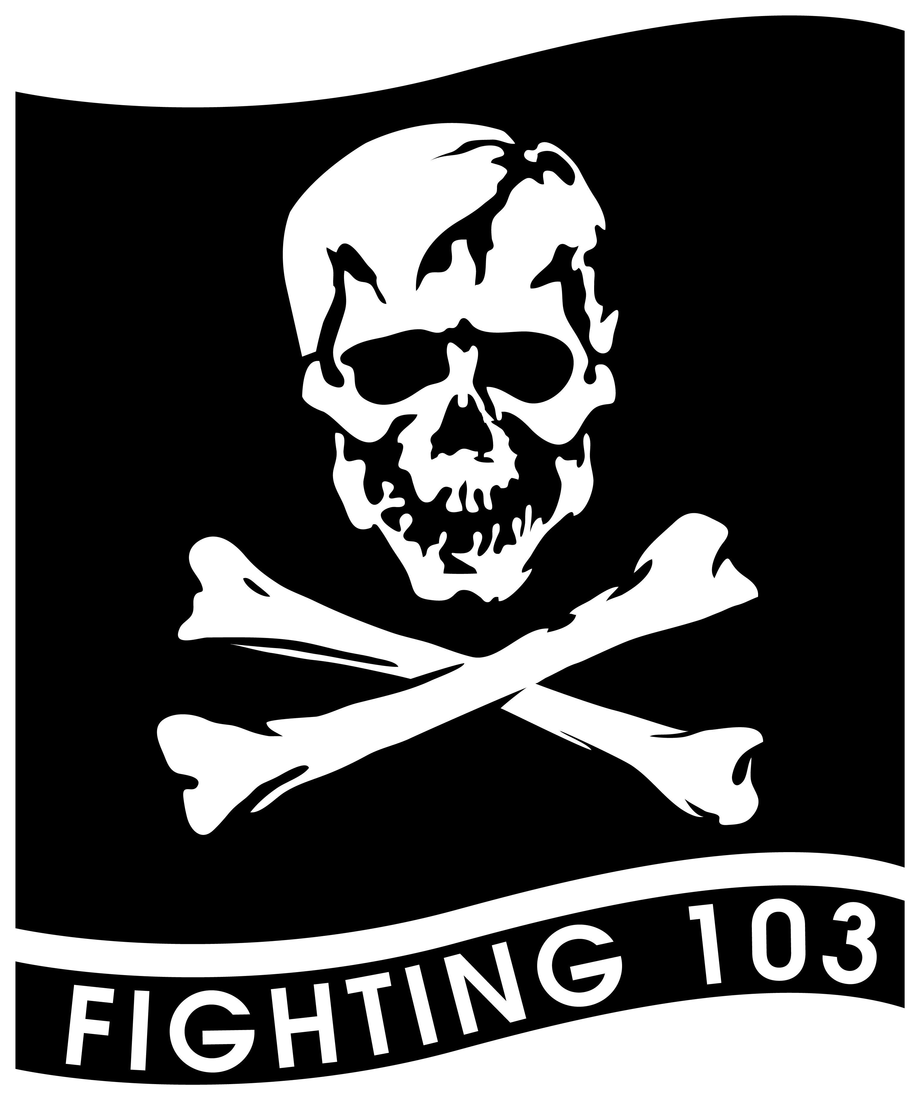 Insignia of the U.S. Navy Fighter Squadron 103 (VF-103) "Jolly Rogers" since 1 October 1995. VF-103 took over the insignia and nickname of the disestablished VF-84. VF-103 was redesignated Strike Fighter Squadron 103 (VFA-103) on 1 February 2005 and kept insignia and nickname.